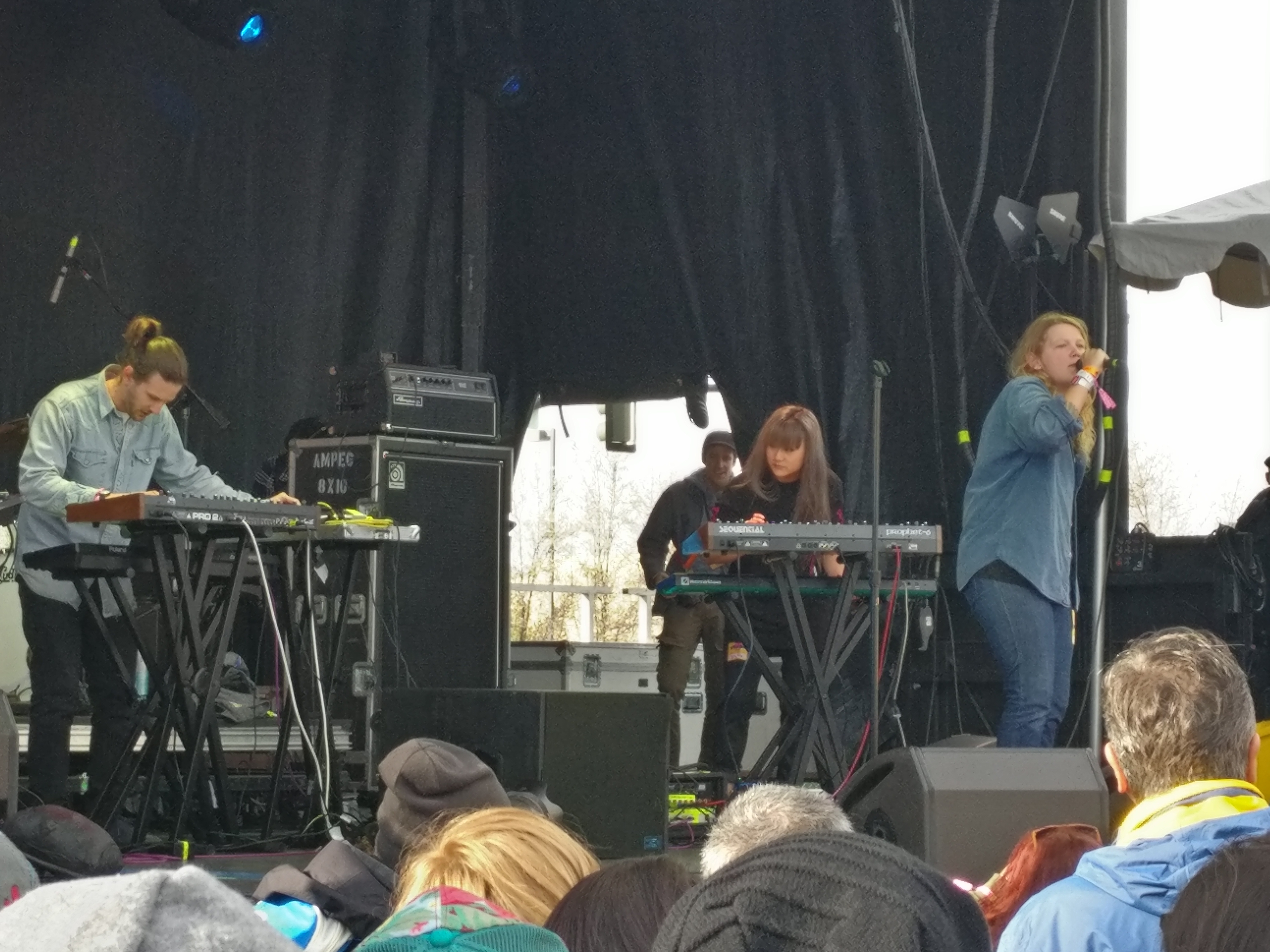 Kate Tempest performs ferocious hip-hop regarding South London in her piece Let Them Eat Chaos at the 6th Annual Treefort Music Fest in Boise, Idaho.